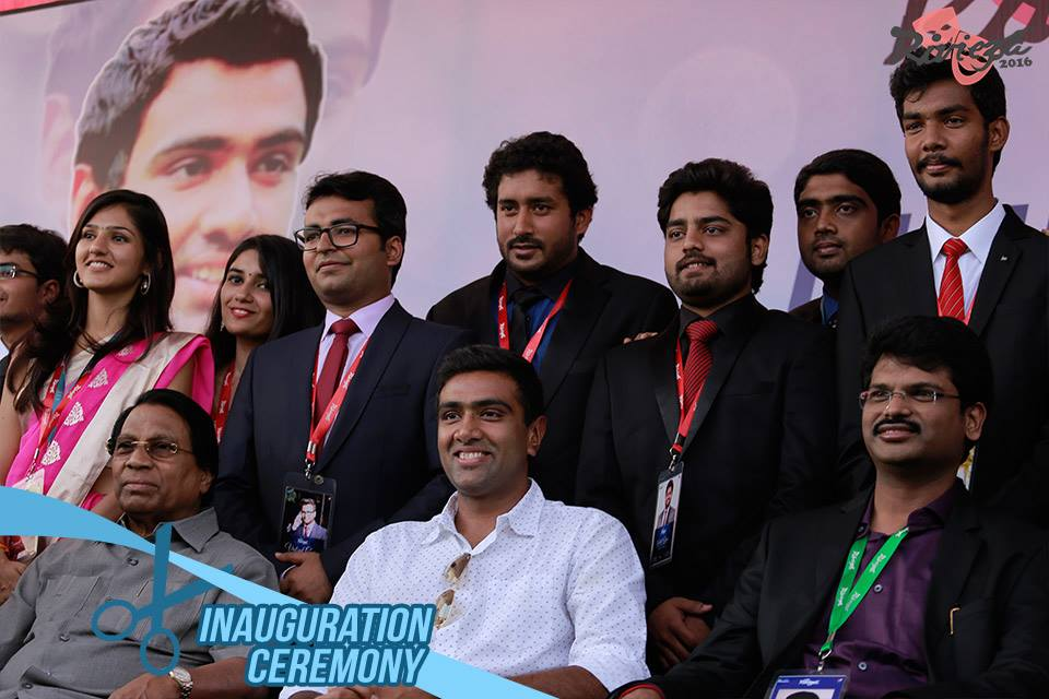 ashwin